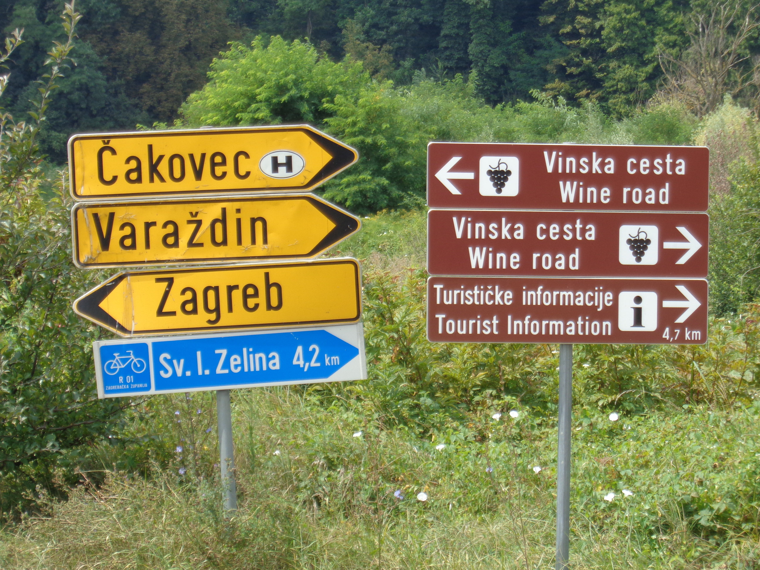 Donja Zelina, Zagreb County, Croatia - fingerposts